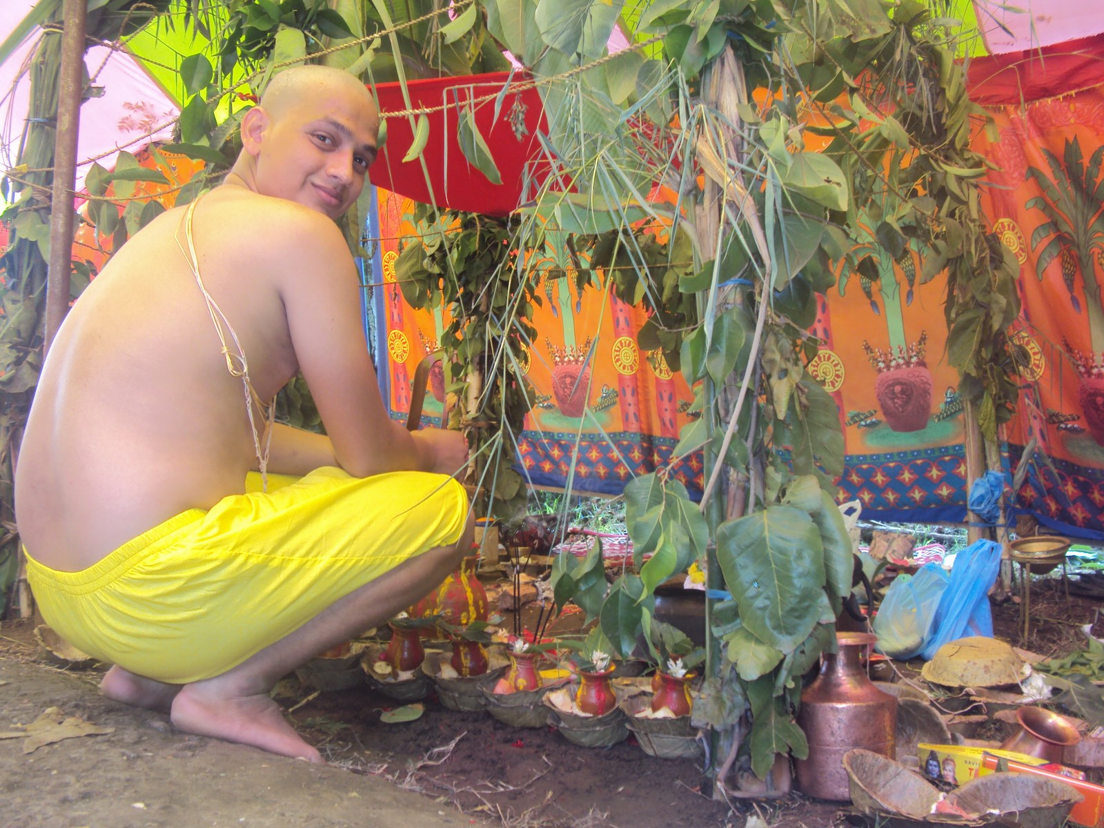 Customarily a sacred and holy string is given to each brahmin son to wear along with holy words that must be remembered until death. It is said these holy words are very powerful—even ghosts are afraid of them. Without this sacred string, the son cannot marry or cremate his parents.